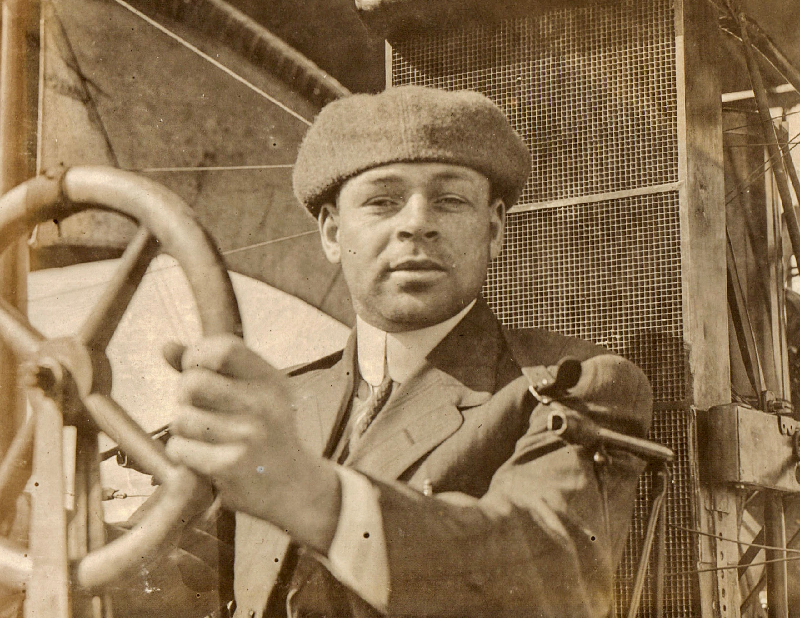 Emory Conrad Malick's official Class of 1912 photo from the Curtiss School of Aviation, San Diego, California